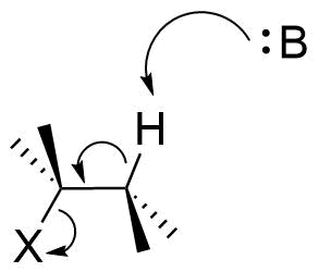 The broken C-H bond and the leaving group in an E2 mechanism are anti-periplanar.